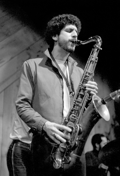 Tenor saxophonist Bob Berg playing in Cedar Walton's quartet, with David Williams, bass, and Billy Higgins, drums. At Bach Dancing & Dynamite Society (The Douglas Beach House), Half Moon Bay, California 11/30/80. photo: Brian McMillen /